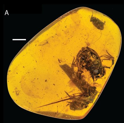 Photograph images of four fossil frog specimens referred to Electrorana, including the holotype (A; DIP-L-0826) . Scale bars equal 5 mm.